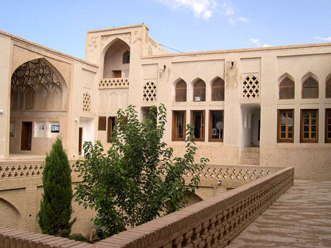 Pirnia traditional house yard